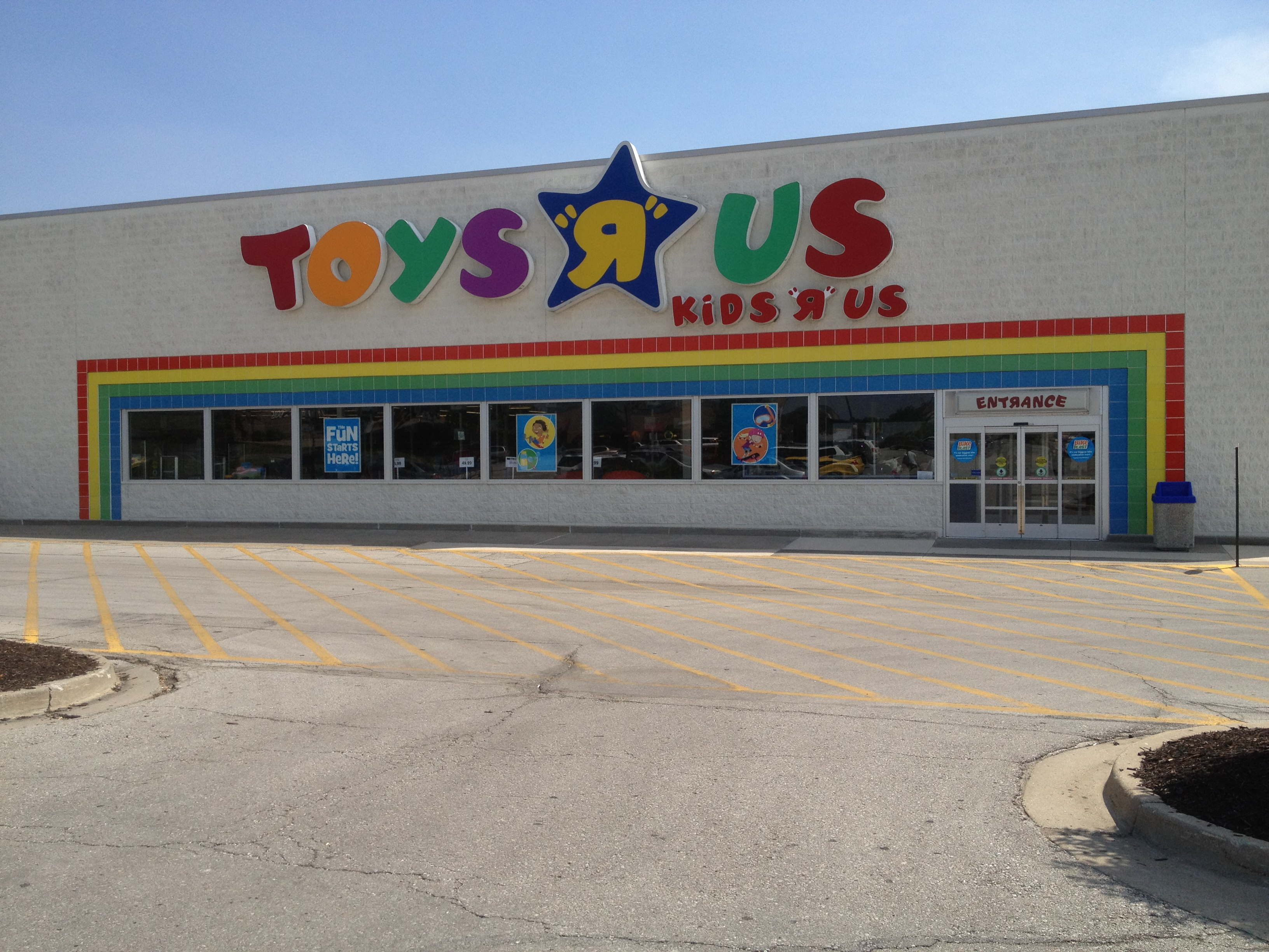 Toys R Us North Broadway Ave Kansas City, MO